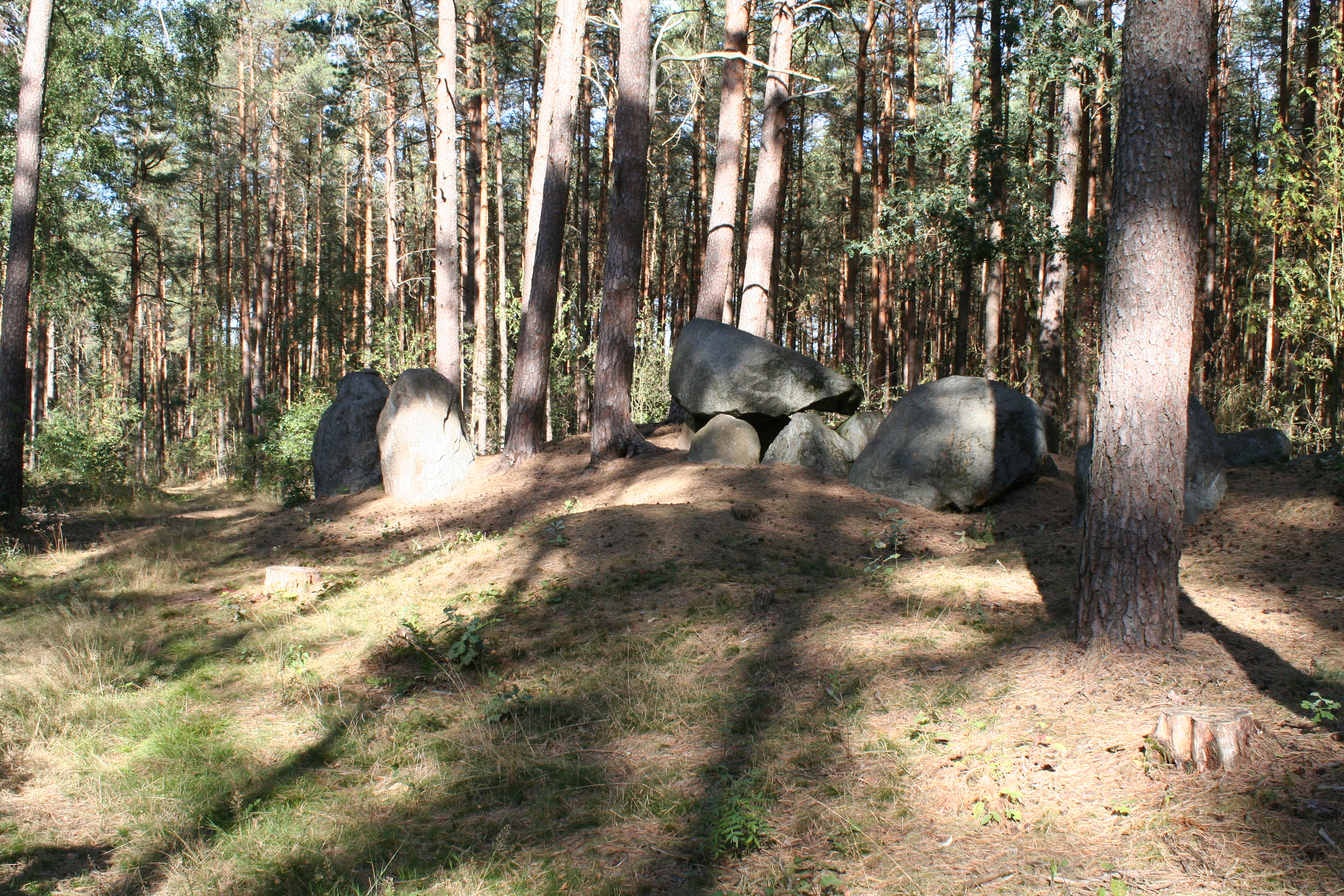 Megalithic tomb Diesdorf 3